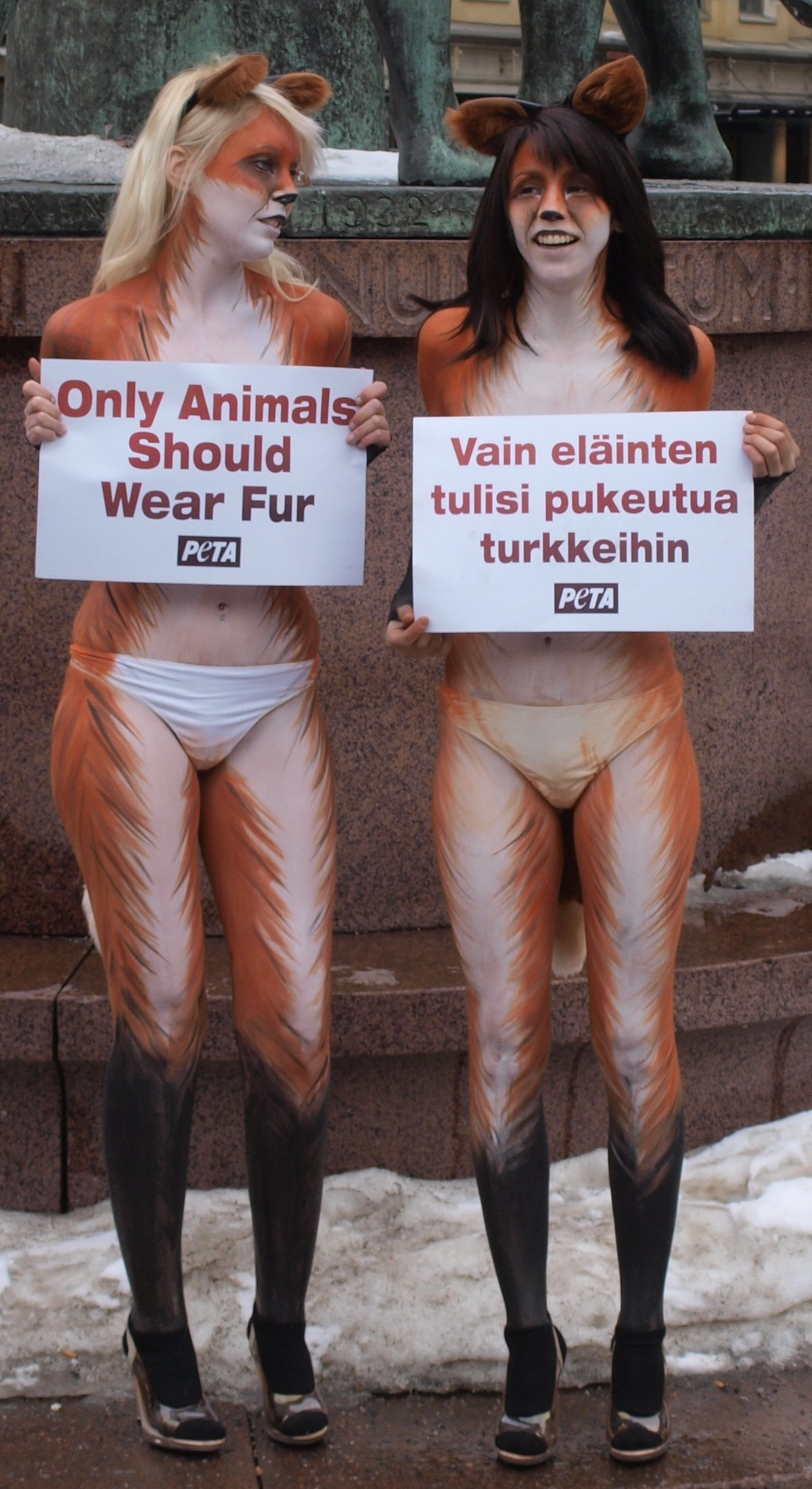 Two young women from PETA, painted to look like foxes, protesting against the fur trade in Helsinki, Finland. The signs say "Only animals should wear fur" in both Finnish and English. In the background is the Three Smiths Statue. Artwork by Riina Laine, Finland. Photographed by me.